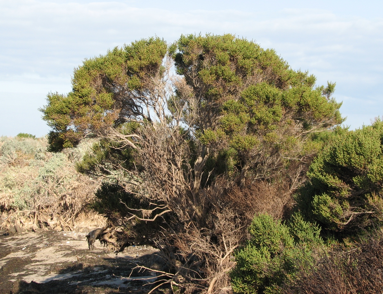 Tecticornia arbuscula, Cheetham Wetlands, Victoria, Australia